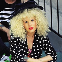 Steed Lord (Demo, Mega, and Kali) SilverLake 2010